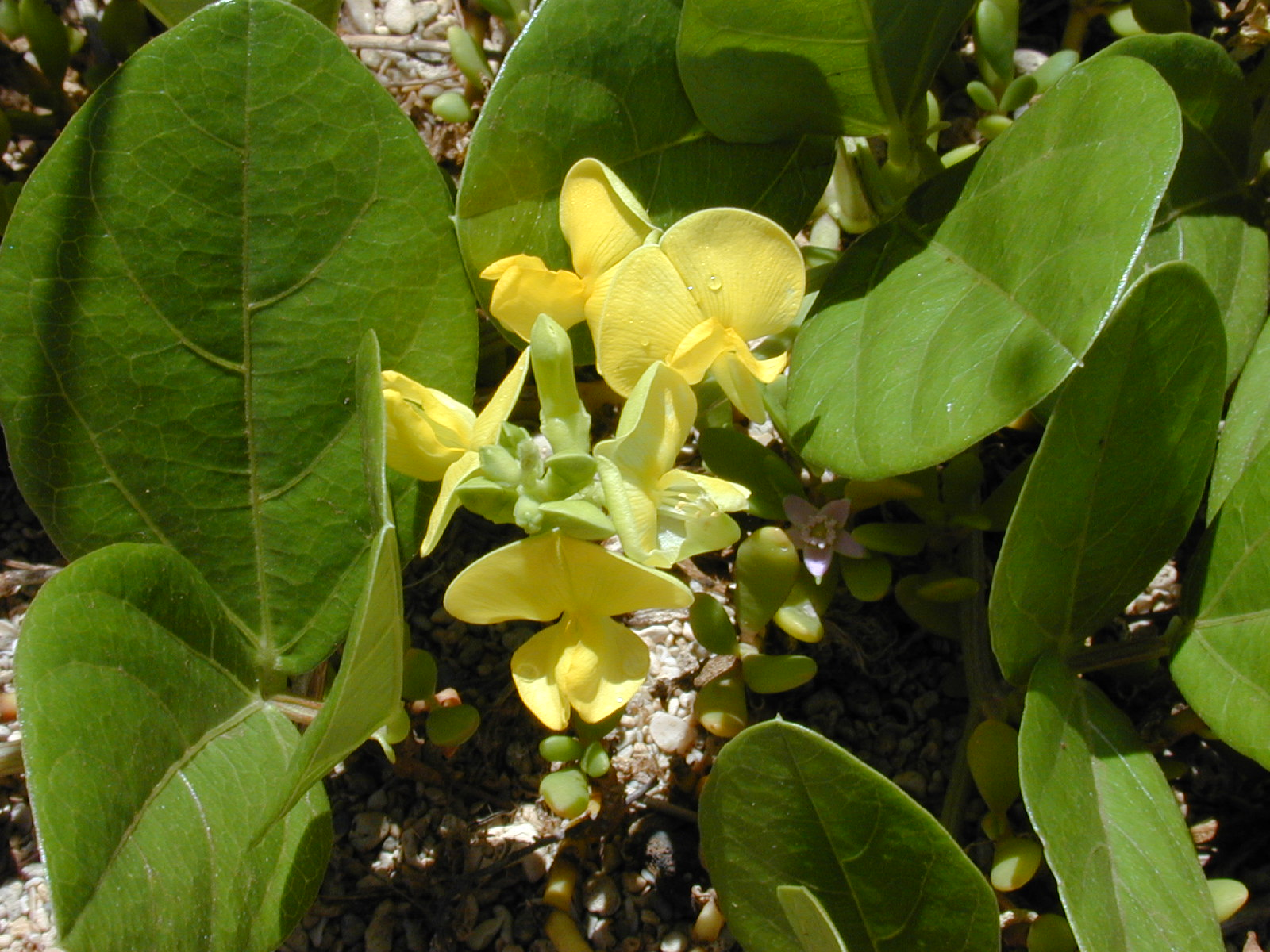 Vigna marina (flowers and leaves). Location: Maui, Kanaha Beach streamside